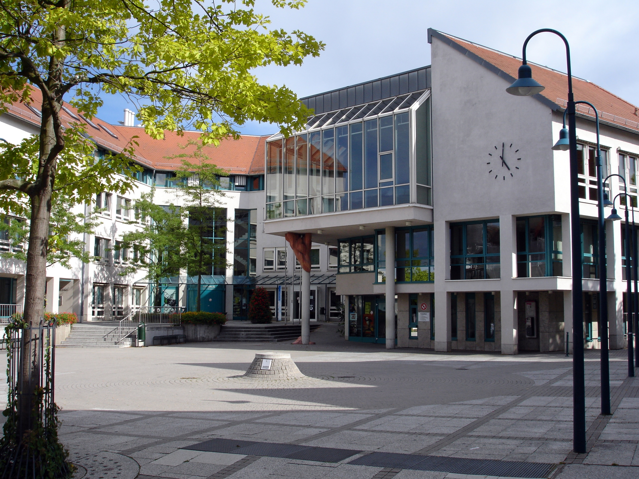 City hall Am Laien, Ditzingen, Baden-Württemberg, Germany